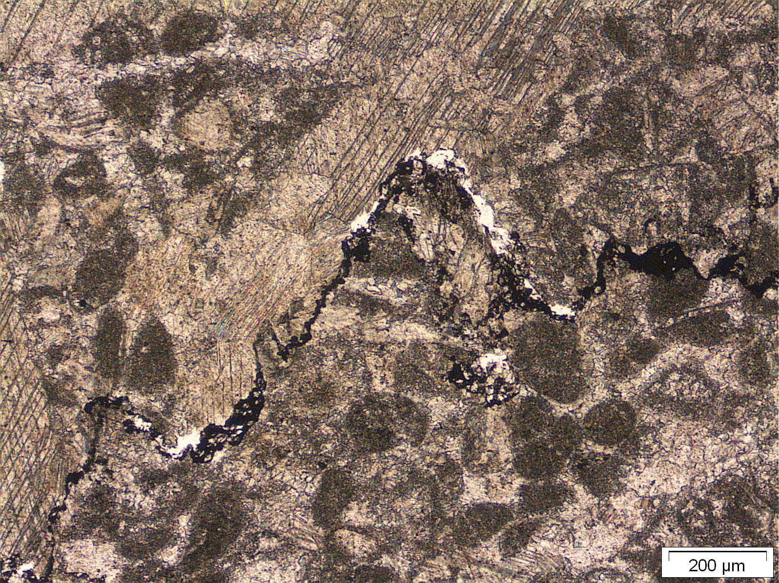 Irregular stylolite planes in a thin section of a packstone (clasts are microorganisms). Normal polarized light; magnification 4x; scale see scalebar. "Oehrlikalk formation of the Axen nappe, Wellenberg, Switzerland.